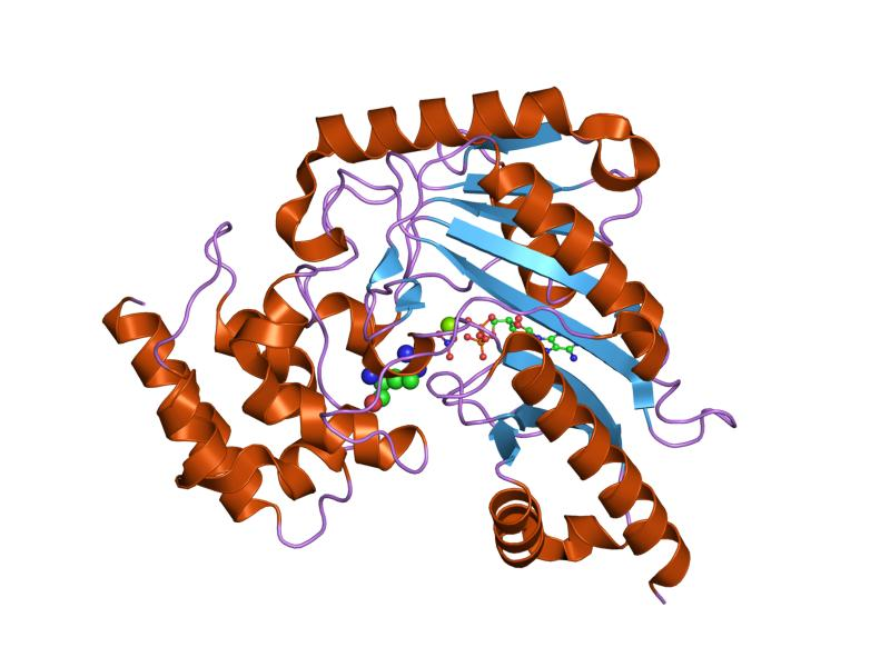 Cartoon representation of the molecular structure of protein registered with 1p50 code.